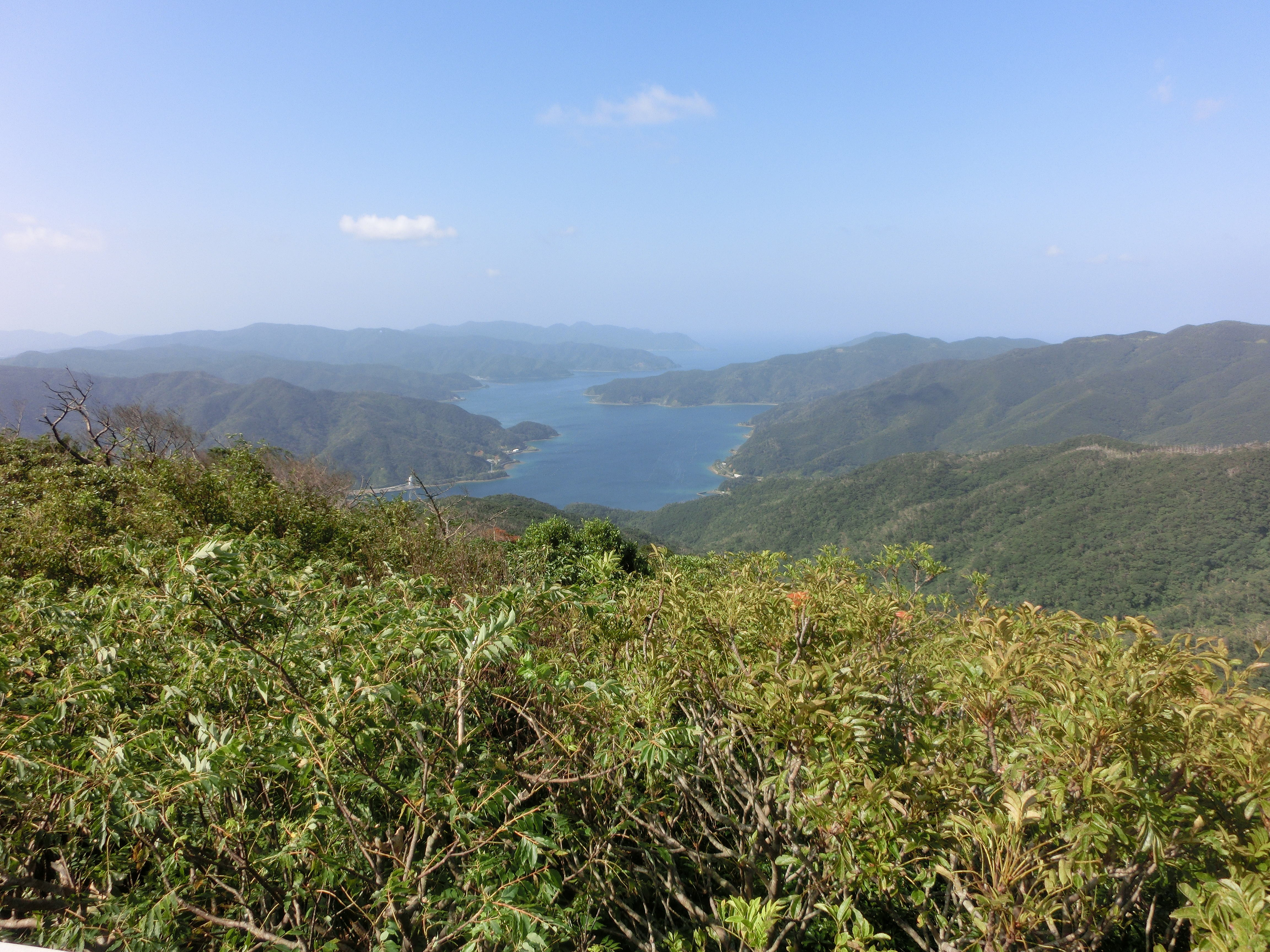 Yakiuchi Bay View From Mt.Yuwan